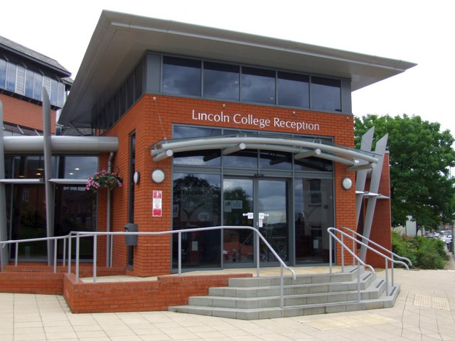 Lincoln College, Lincoln The reception area, facing Monks Road.